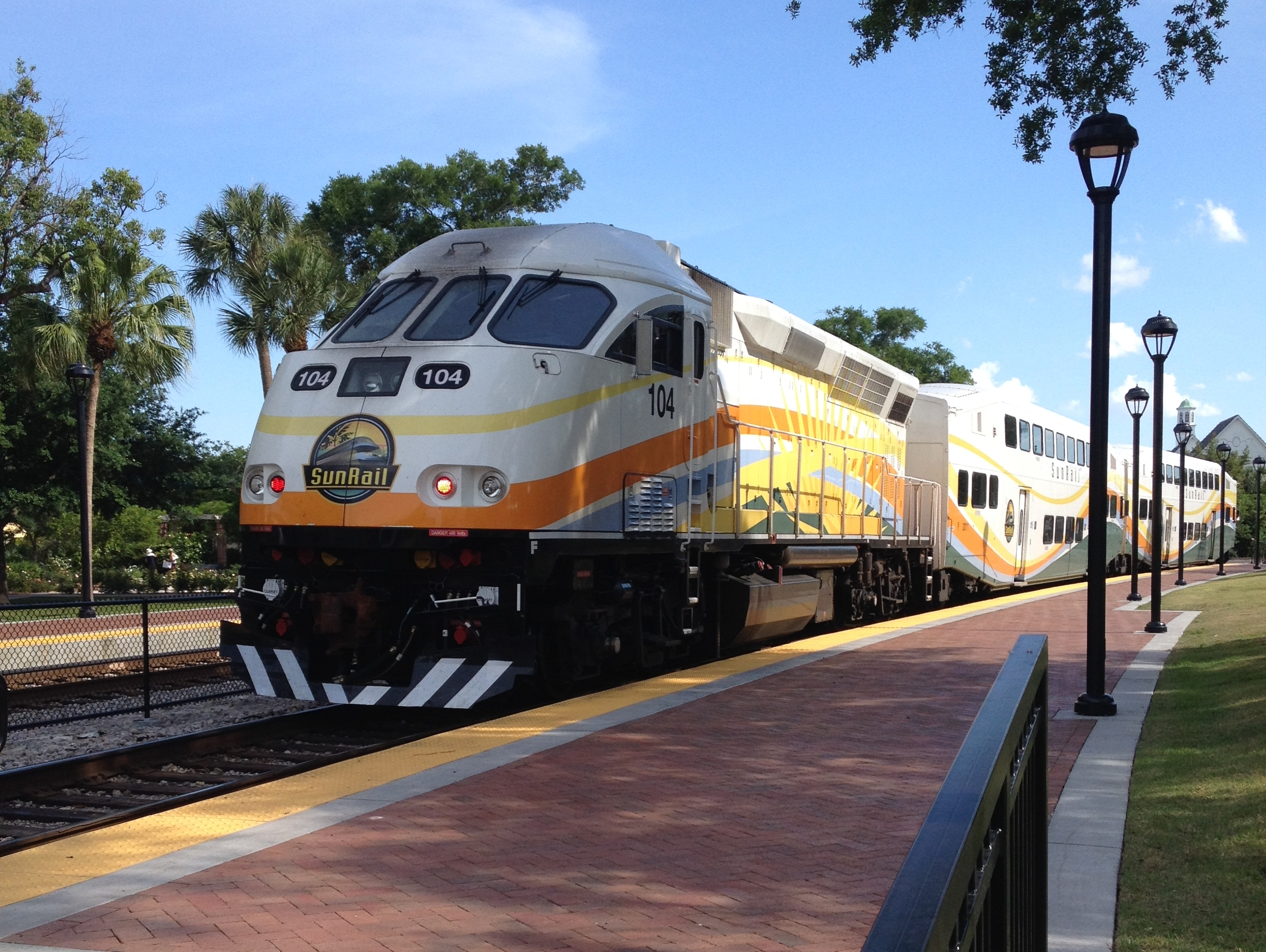 A southbound SunRail train leaving Winter Park Station, en route to downtown Orlando.